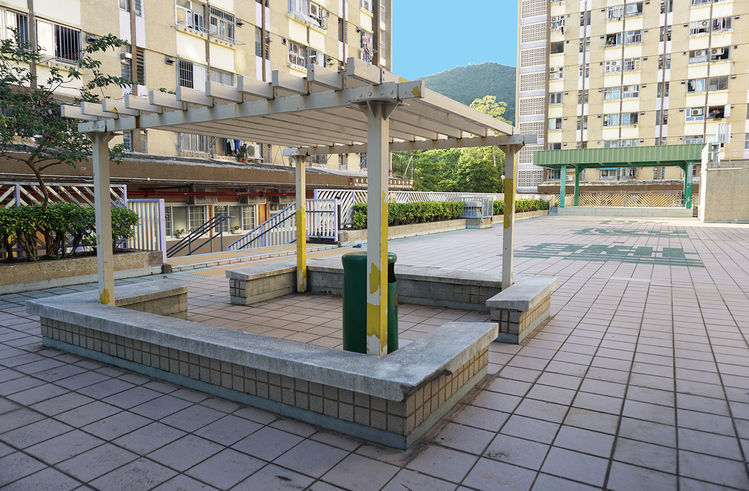 Chak On Estate in Tai Wo Ping, Hong Kong.